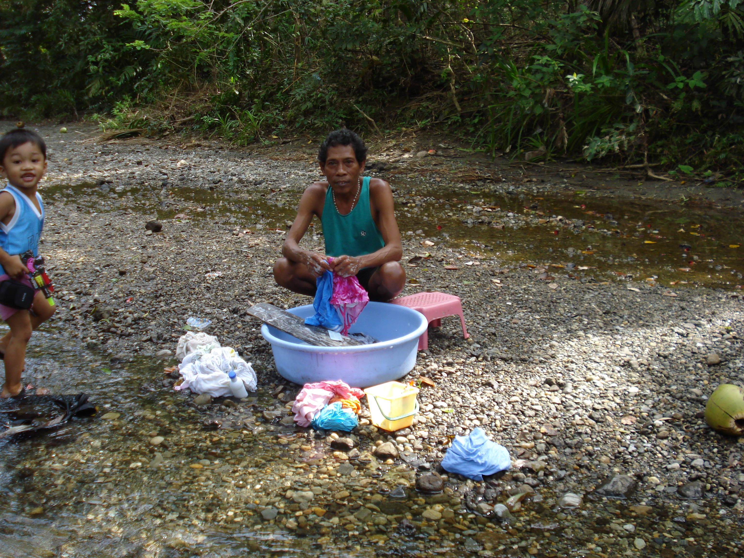 Tatay is doing the laundry in the river ( philippines)